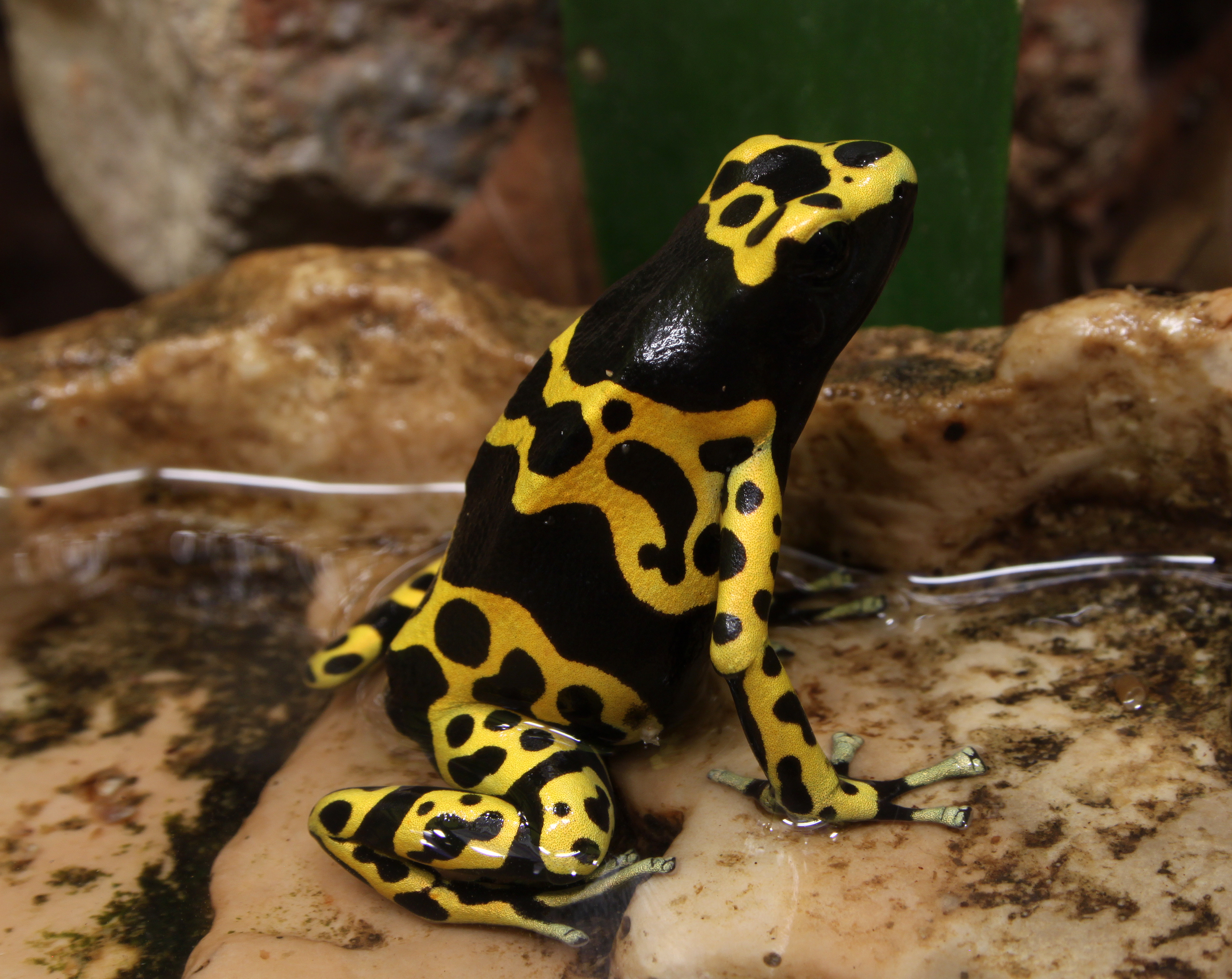 Yellow-Banded Poison Dart Frog, Yellow-Headed Poison Dart Frog or Bumblebee Poison Frog, Dendrobates leucomelas, Family: Dendrobatidae, Location: Germany, Ulm, Zoological Garden